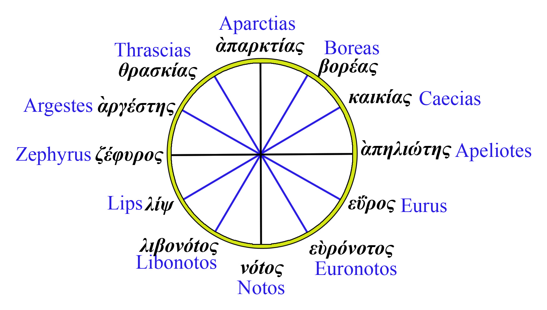 Depiction of an ancient Greek 12-wind compass rose, following the nomenclature of Timosthenes (c. 280 BCE, as reported by Agathemerus). For simplicity, this depiction assumes that winds are at 30-degree angles on a compass rose.